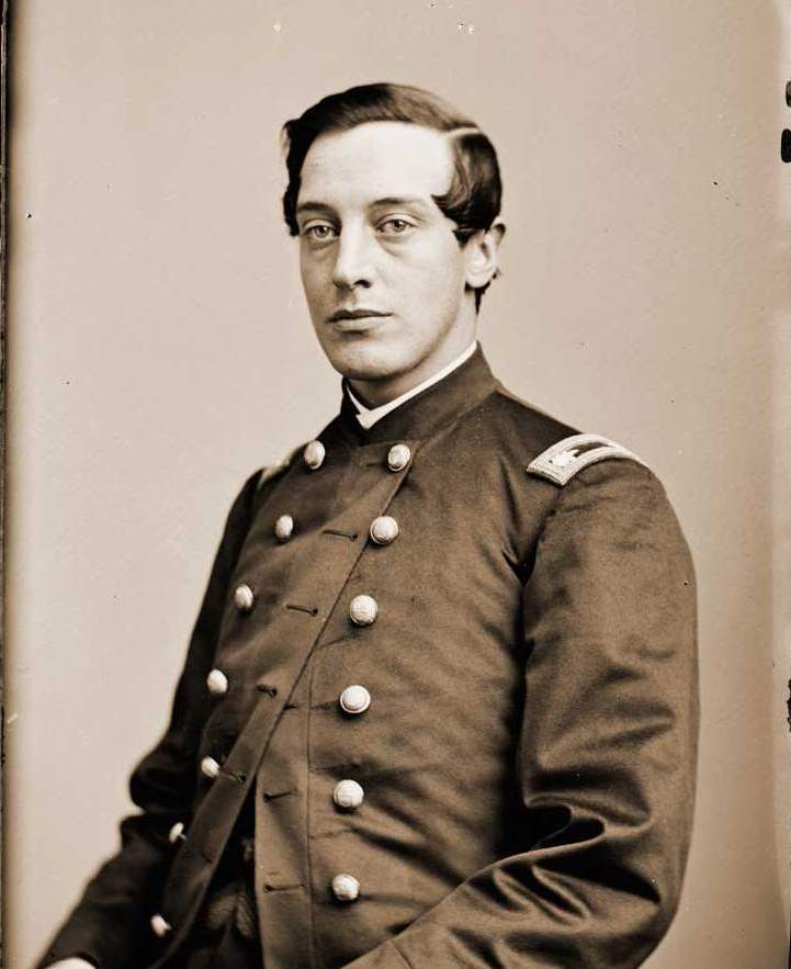 Studio portrait of Lieutenant Colonel Alford B. Chapman, commander of the 57th New York Infantry Regiment during the American Civil War